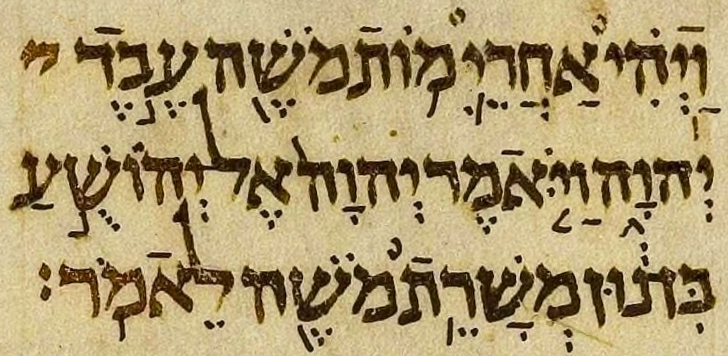 Joshua 1:1 in the Aleppo Codex.